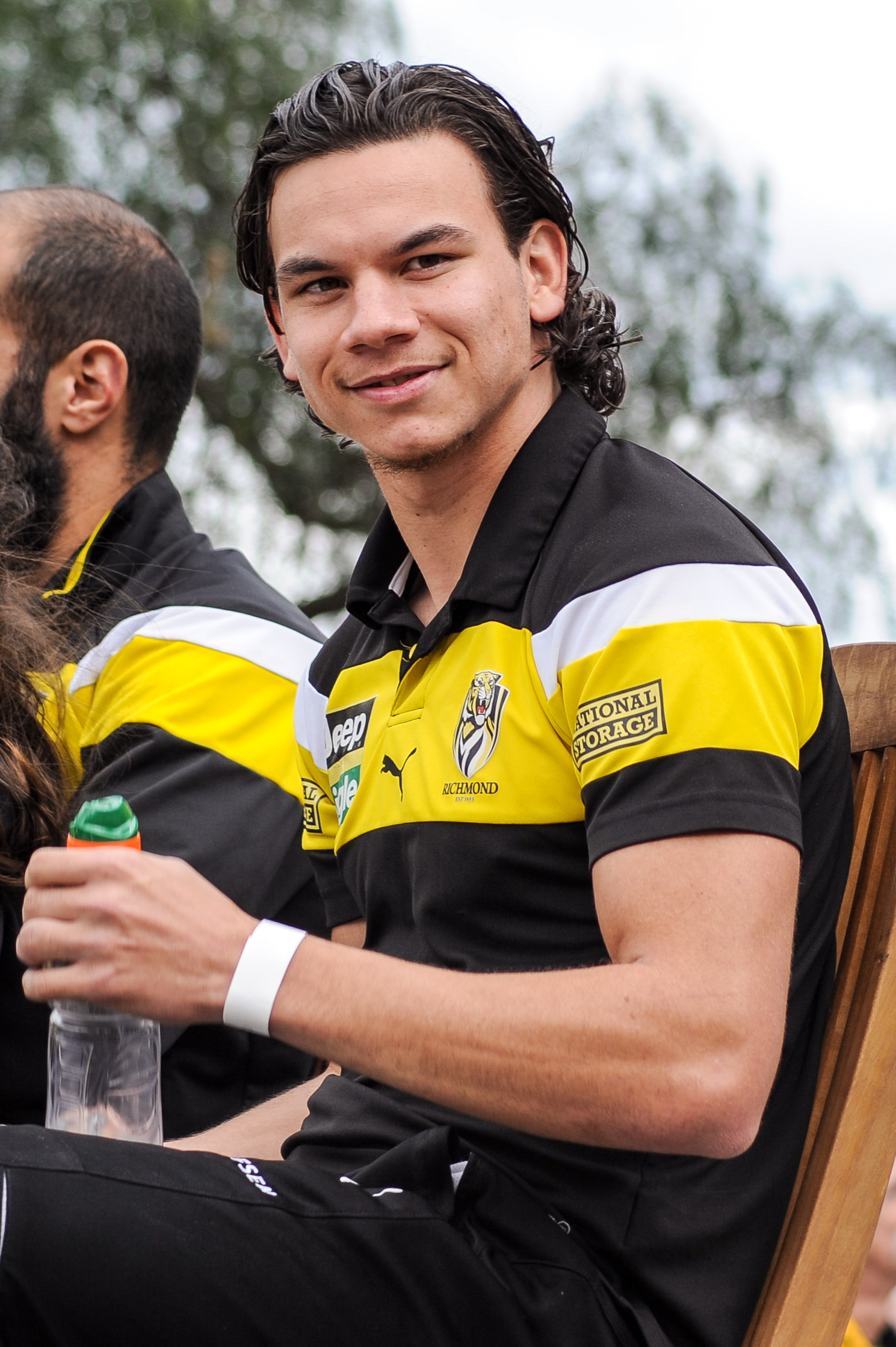 Daniel Rioli at the 2017 AFL Grand Final parade on 29 September 2017 in Melbourne, Victoria.